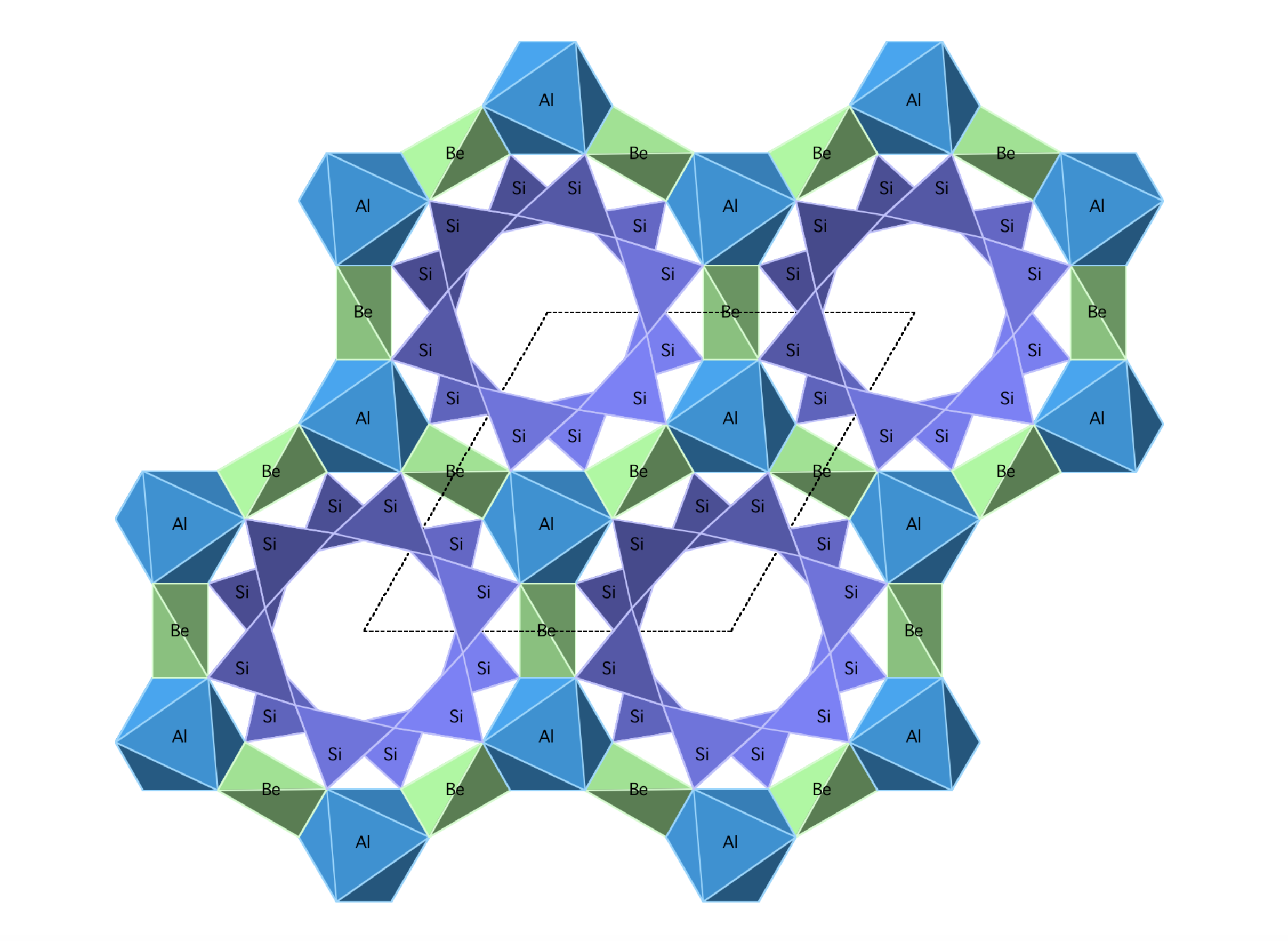 Beryl Crystal Structure with view down C axis showing silicate ring channels